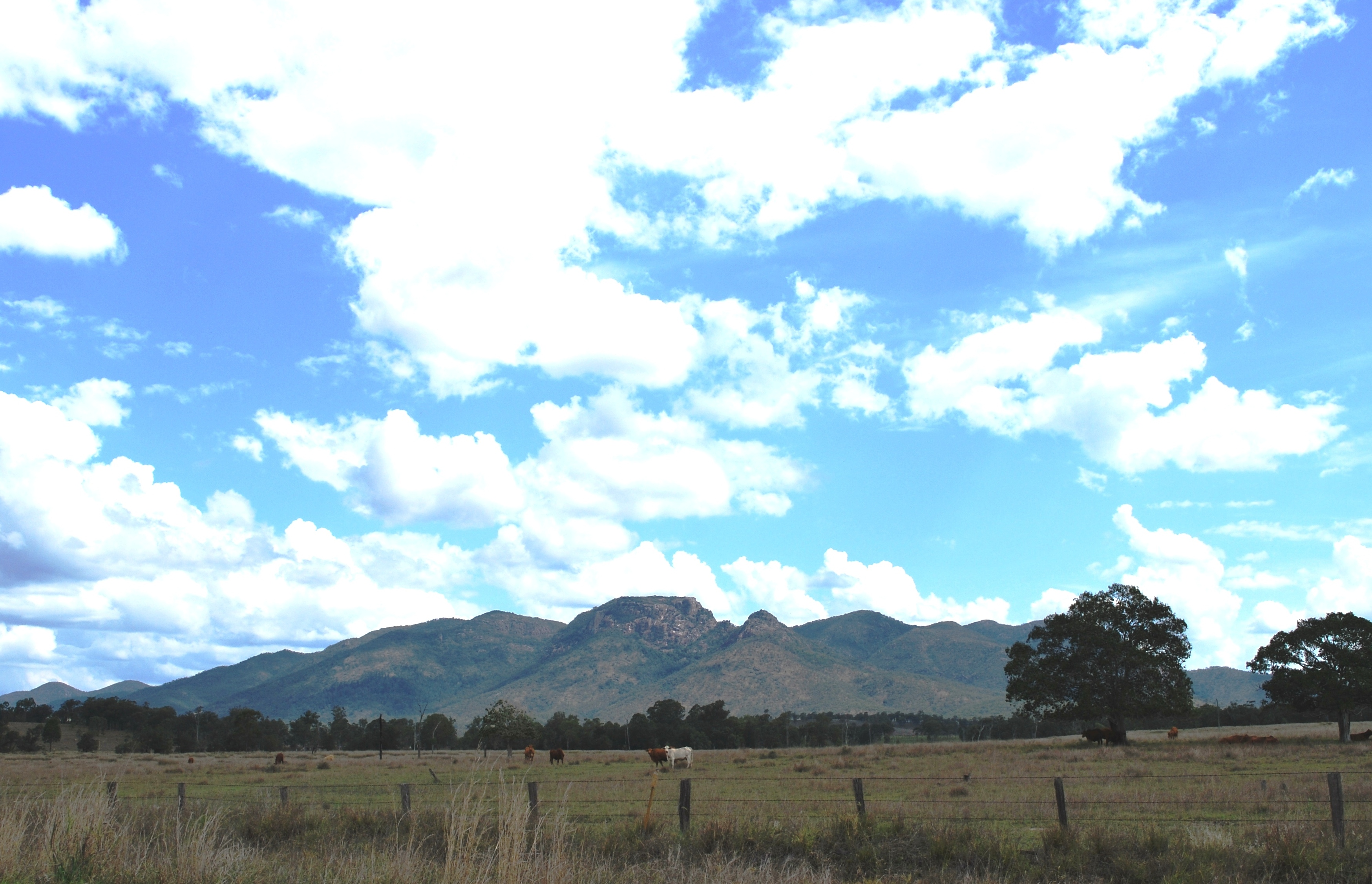 Mount Walsh National Park, seen from near Biggenden, Queensland